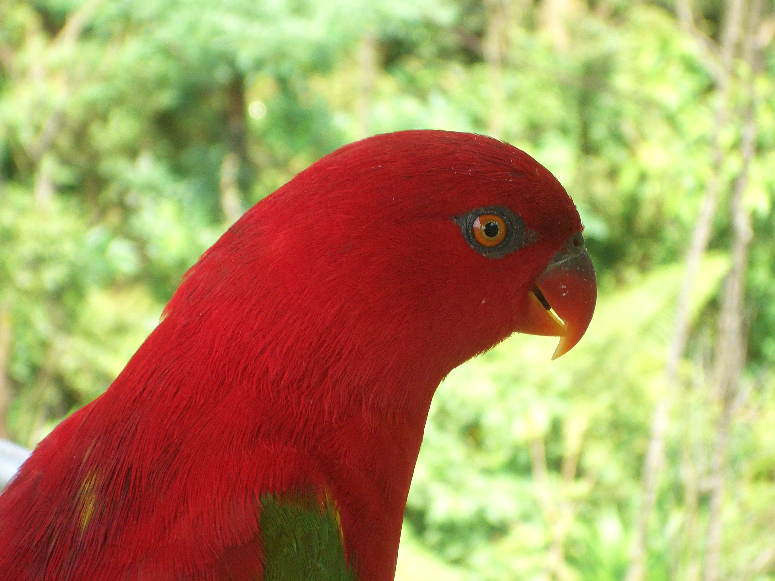 Chattering Lory (Lorius garrulus ) at Jurong Bird Park. Singapore.